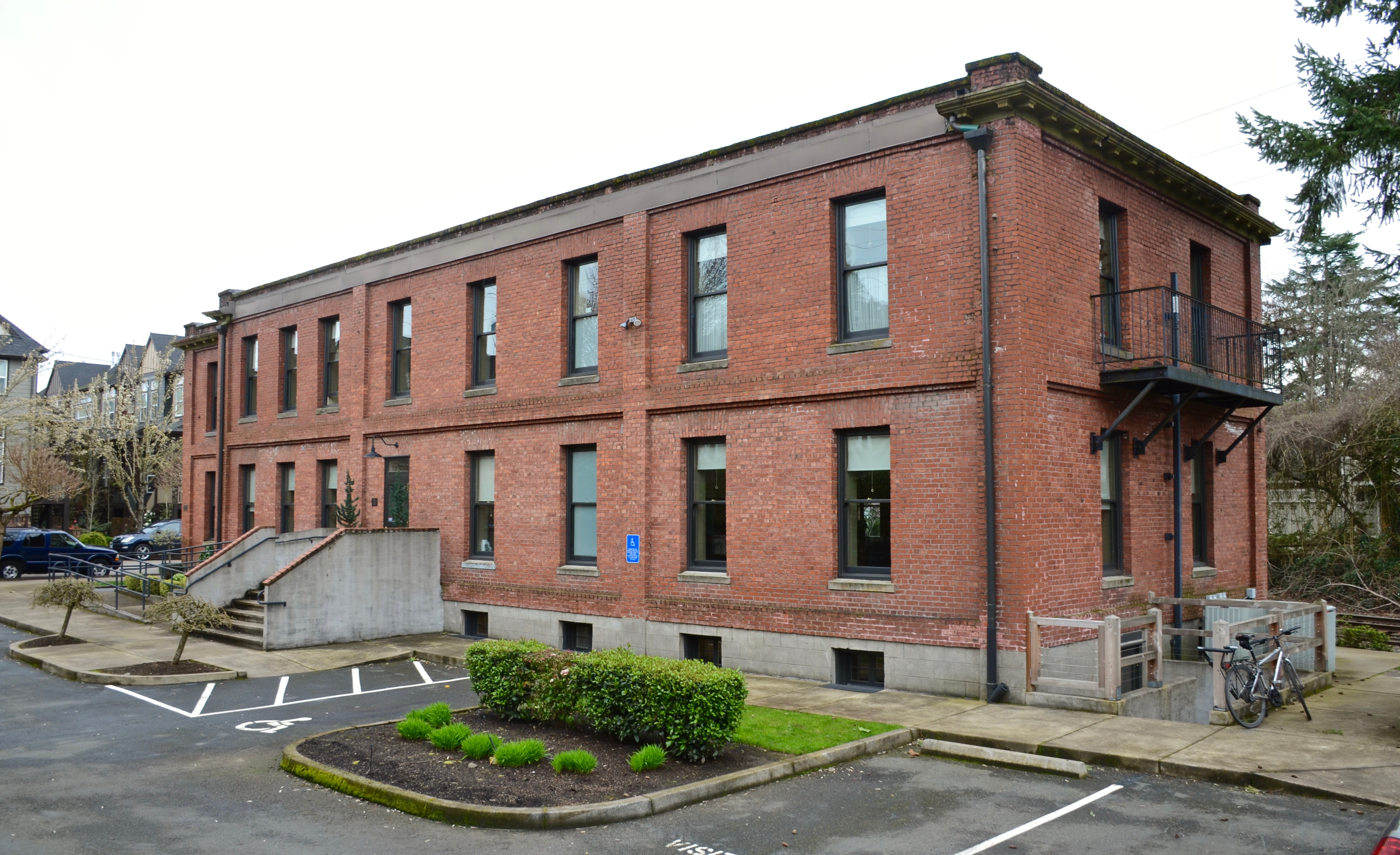 The former Portland Railway, Light & Power Company's Sellwood Division Carbarn Office and Clubhouse, commonly known as the Carmen's Clubhouse during its original period of use. It was built in 1910 and is listed on the National Register of Historic Places. This view is from the northwest. During the building's original use, tracks ran past this side of the building and also the other (south) side, to reach the Sellwood Carbarn (which was located at the far left, on the other side of 11th Avenue), and a single freight track of Oregon Pacific Railroad still runs past the building's south side.